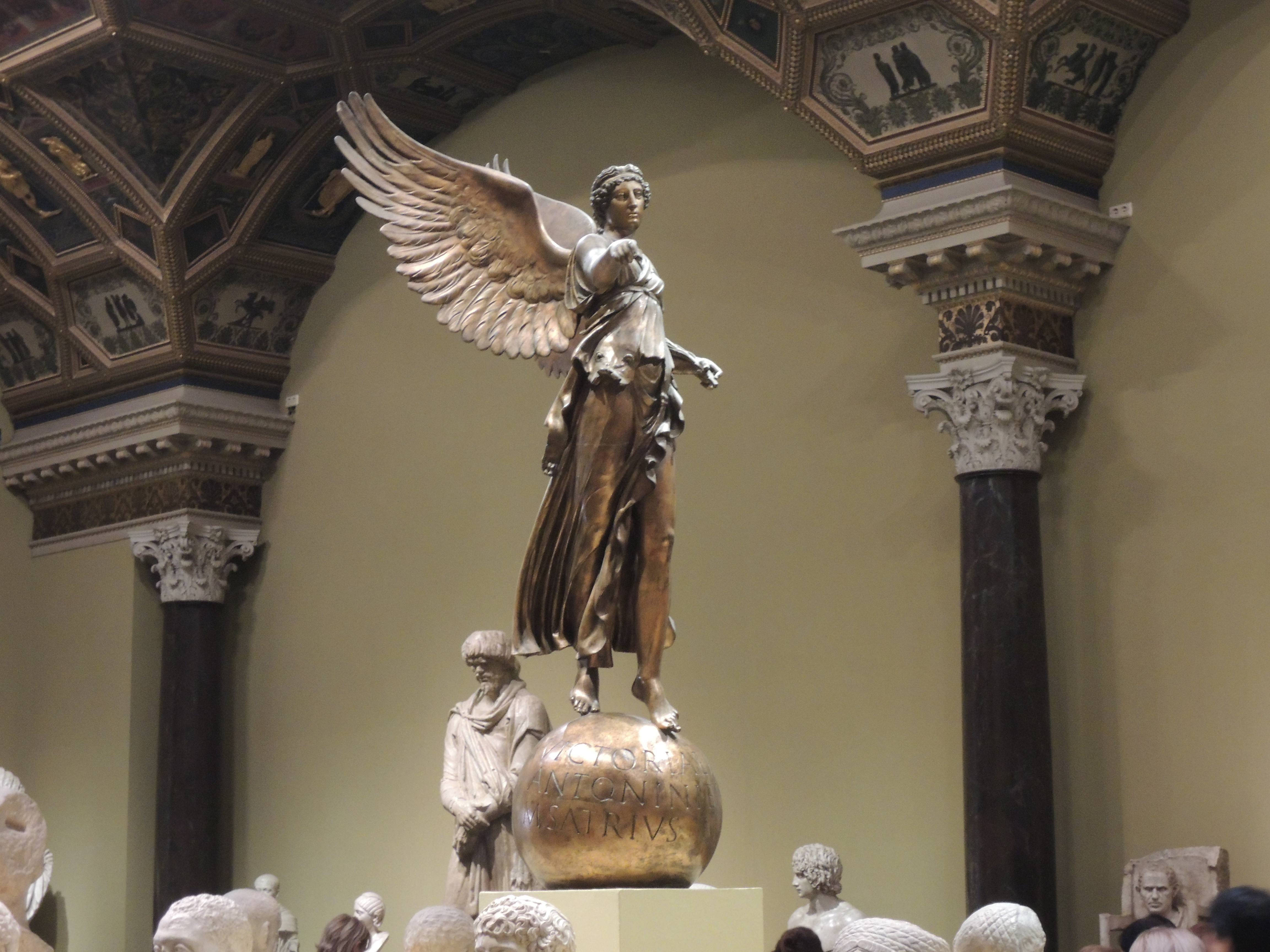 Castings of Ancient Roman statues in the Pushkin Museum